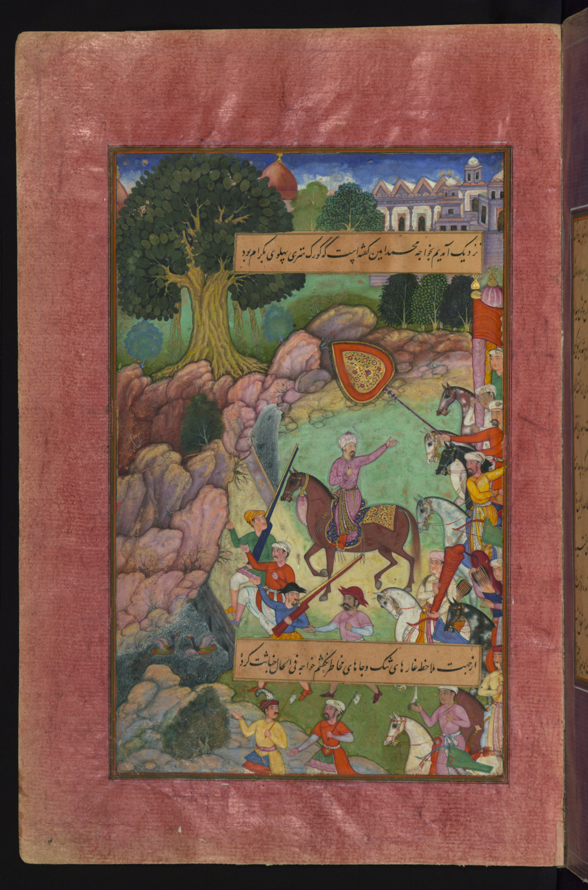 Illustrations from the Manuscript of Baburnama (Memoirs of Babur) - Late 16th Century Bāburnāma is the memoirs of Ẓahīr ud-Dīn Muḥammad Bābur (1483-1530), founder of the Mughal Empire and a great-great-great-grandson of Timur. It is an autobiographical work, originally written in the Chagatai language, known to Babur as "Turki" (meaning Turkic), the spoken language of the Andijan-Timurids. Because of Babur's cultural origin, his prose is highly Persianized in its sentence structure, morphology, and vocabulary,and also contains many phrases and smaller poems in Persian. During Emperor Akbar's reign, the work was completely translated to Persian by a Mughal courtier, Abdul Rahīm, in AH (Hijri) 998 (1589-90). These Paintings, being a fragment of a dispersed copy, was executed most probably in the late 10th AH /16th CE century. It contains 30 mostly full-page miniatures in fine Mughal style by at least two different artists. Another major fragment of this work (57 folios) is in the State Museum of Eastern Cultures, Moscow.